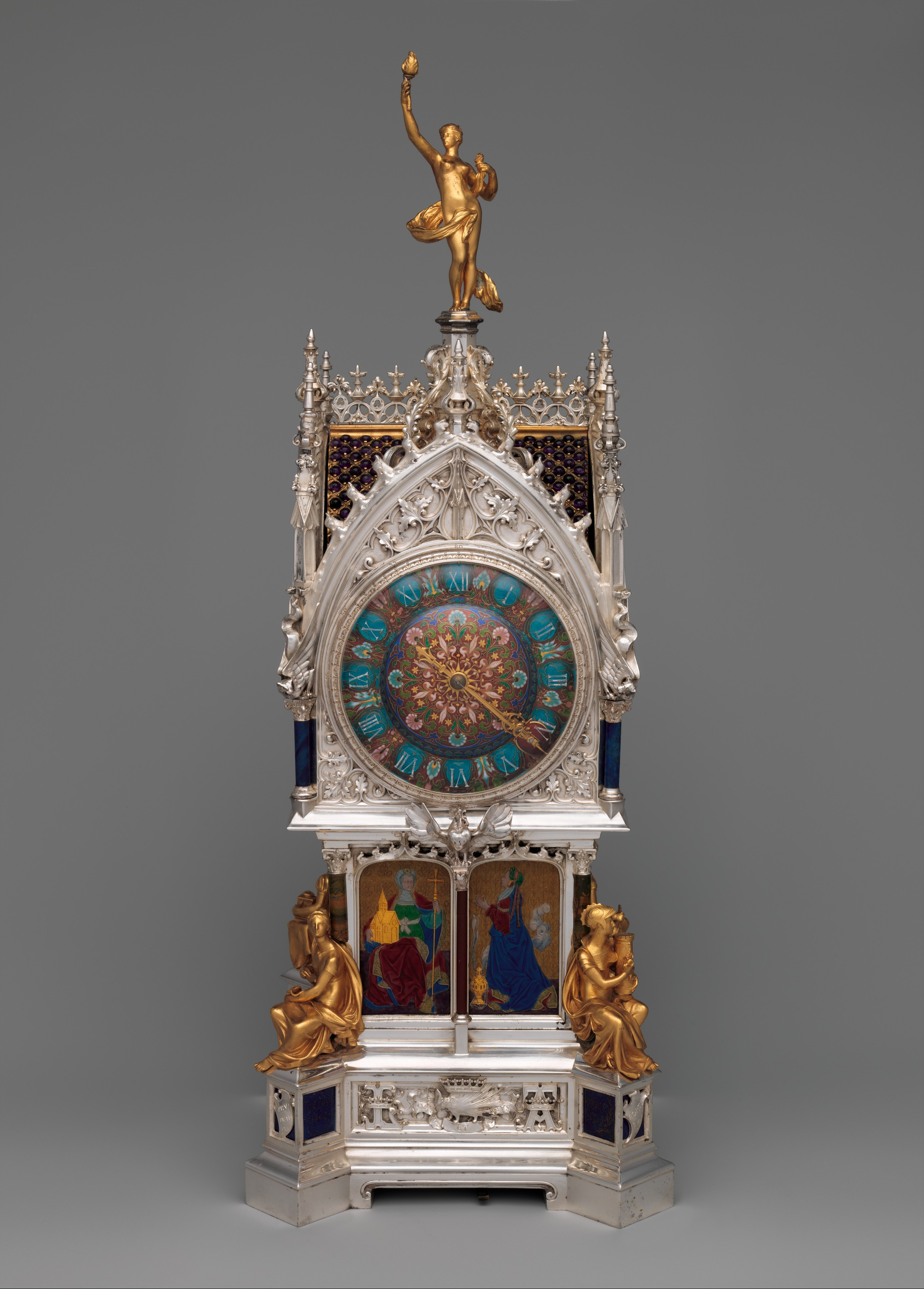 Table clock with calendar, 1881, historical revival case and enamel designed by Lucien Falize (French, 1839-1897), Paris; clock's movement by Le Roy et Fils, Paris. Commissioned by the English collector Alfred Morrison. Collection Metropolitan Museum of Art [1].